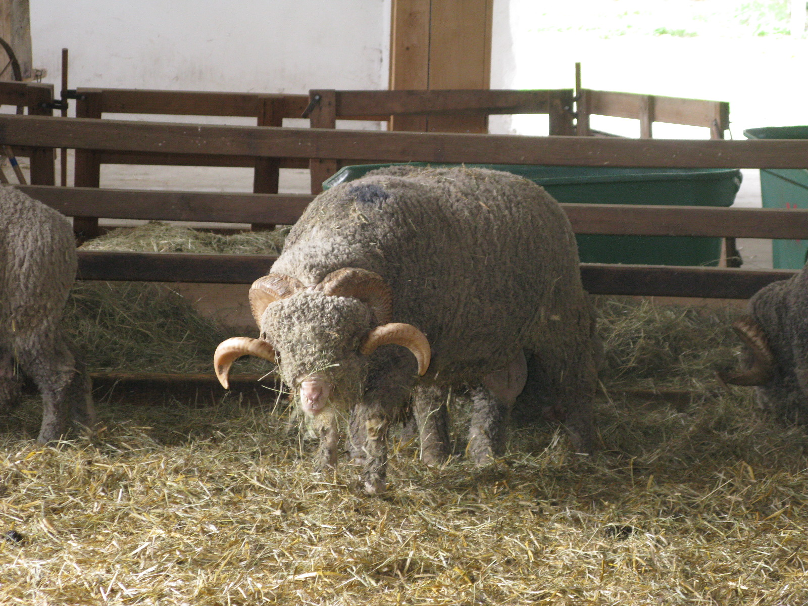 Ram (ovis aries), mérinos de Rambouillet breed, national sheepfold of Rambouillet.